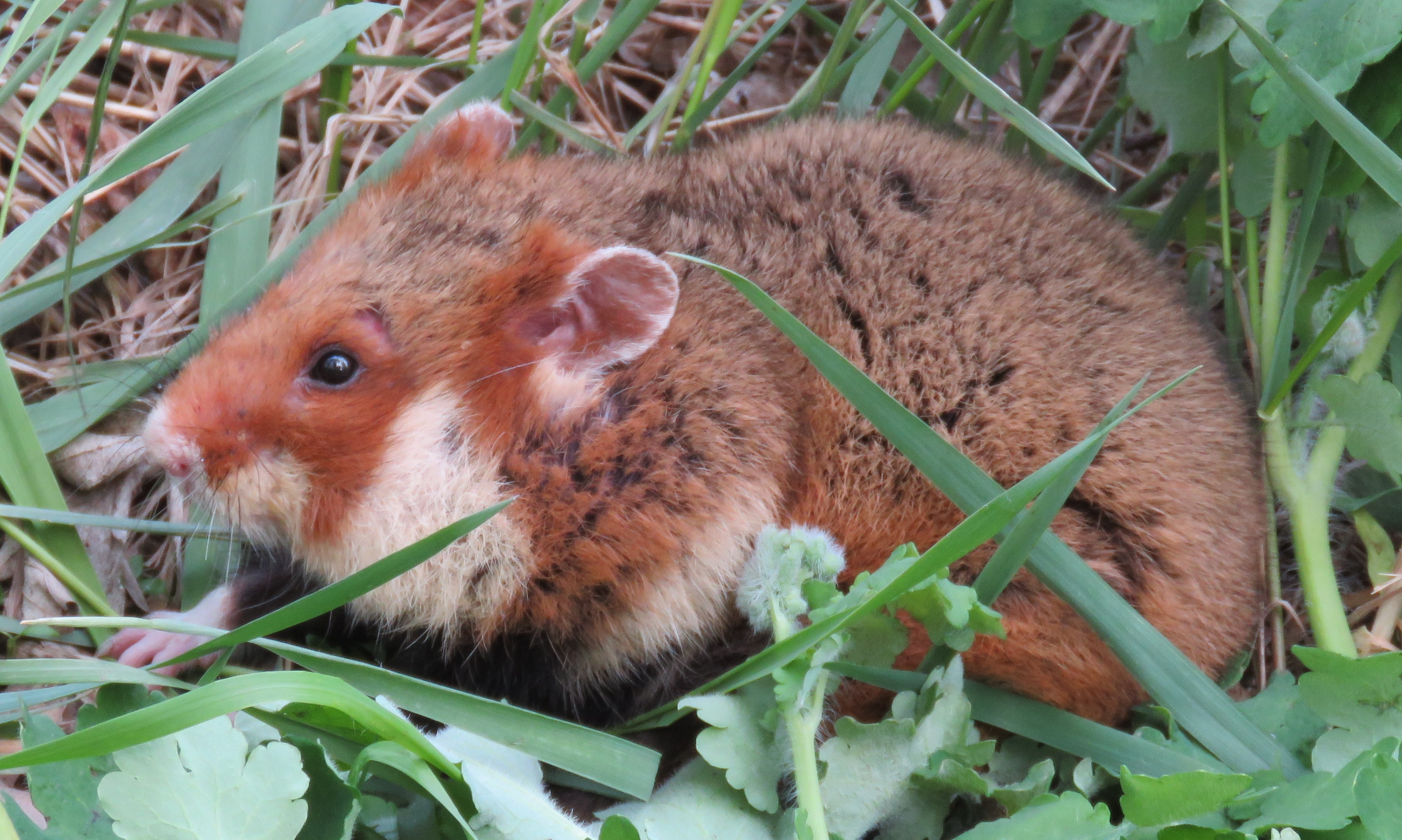 Common hamster in Simferopol (Crimea)